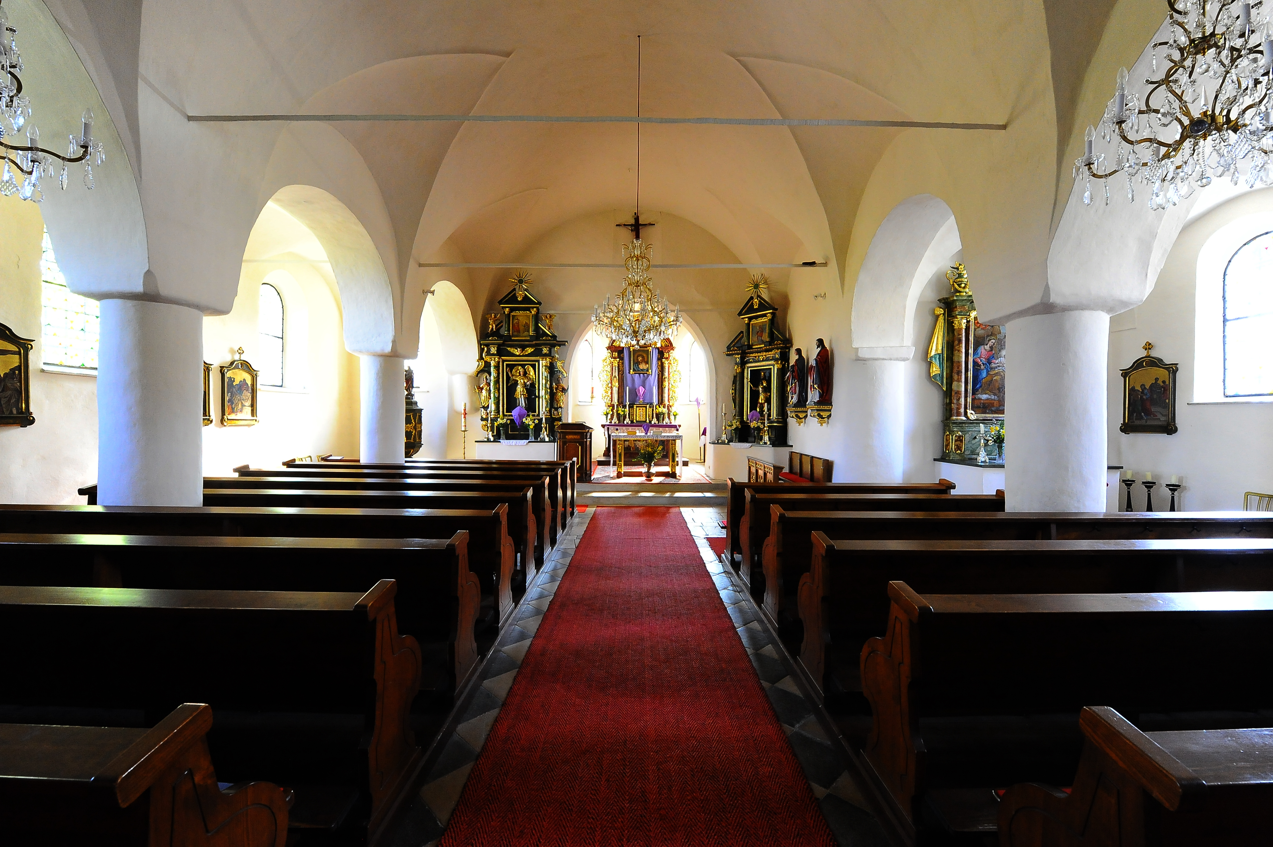 Interior of the parish church holy Mary Rosary Queen on Oberer Kirchenweg 10 at Augsdorf, situated in the municipality Velden am Wörthersee, district Villach Land, Carinthia, Austria